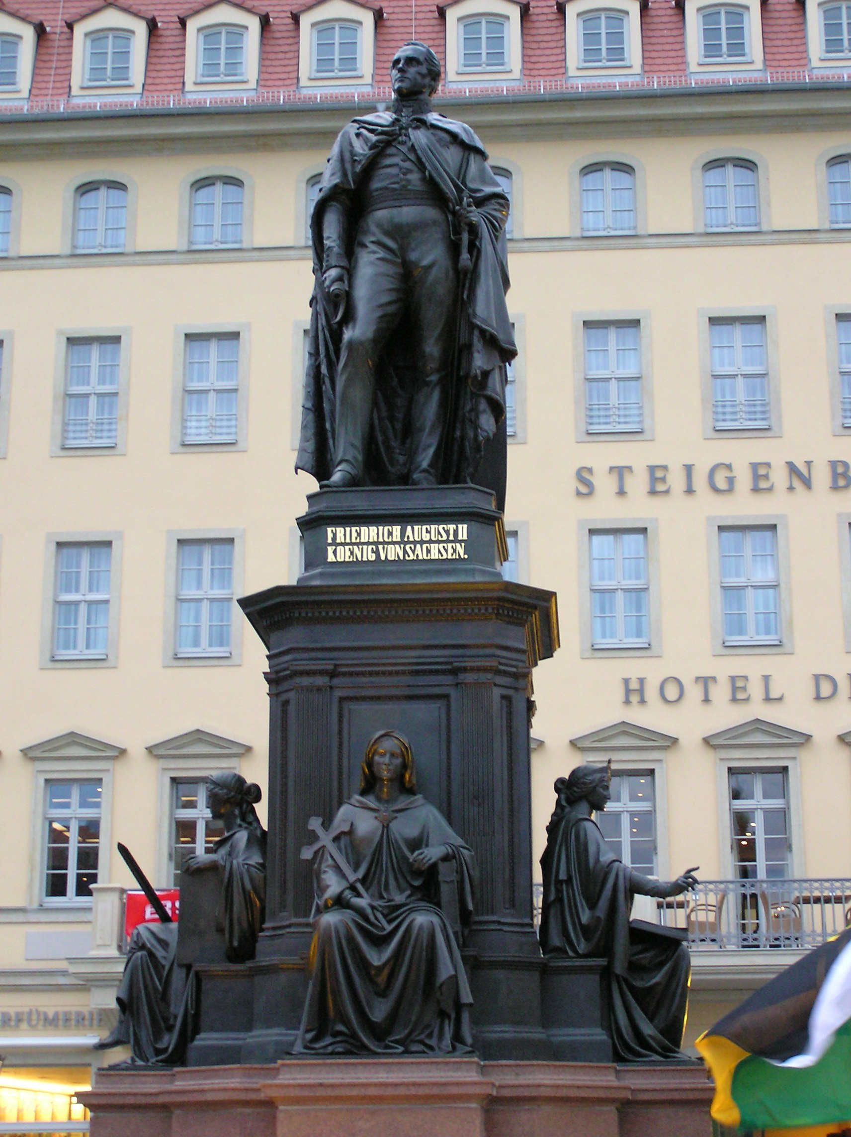 Statue of Frederick Augustus II King of Saxony in Dresden, sculpted by Ernst Hähnel in 1867.